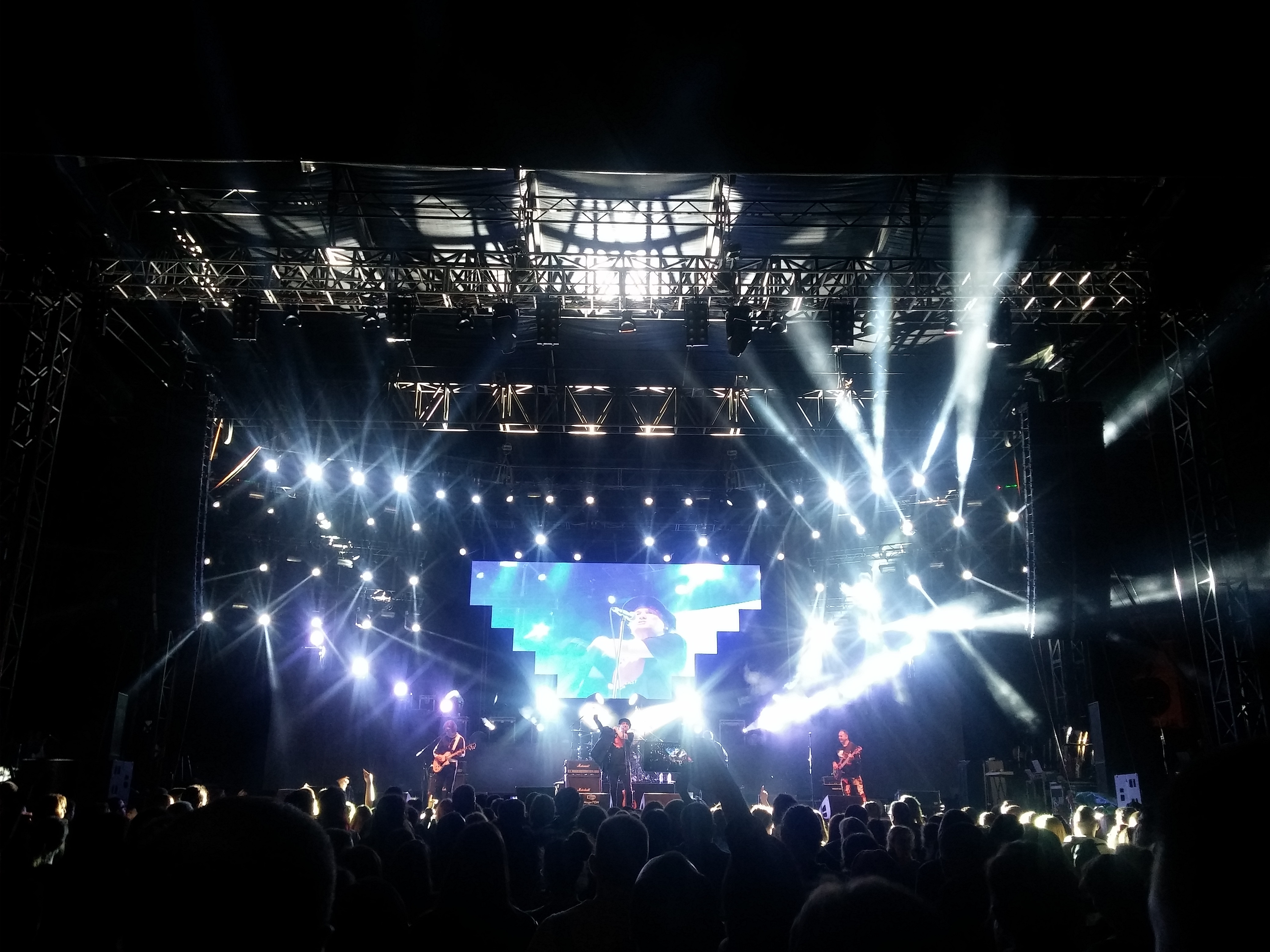 Performance by Plavi Orkestar on Arsenal Fest 08 Main stage in Kragujevac, Serbia.